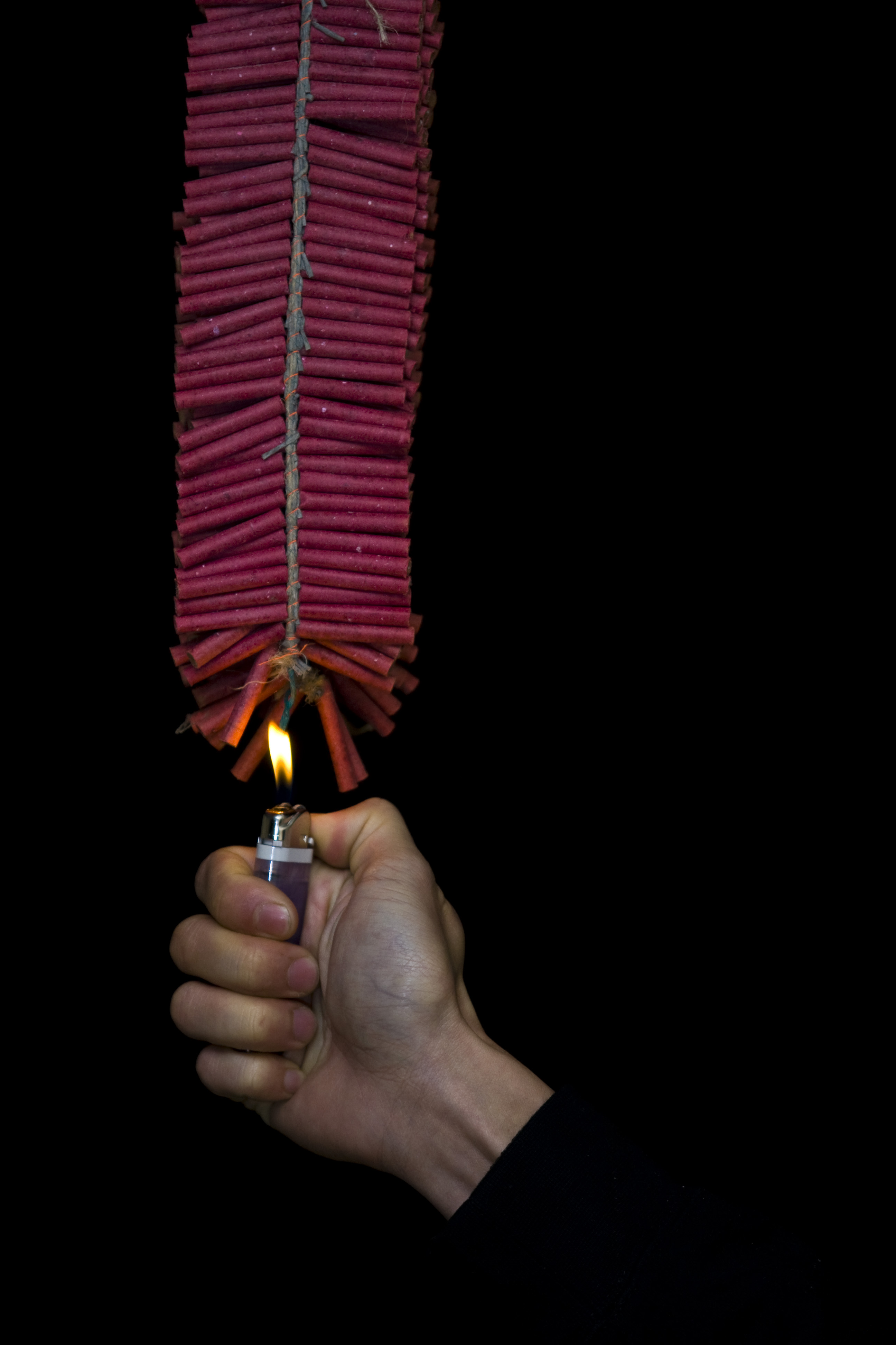 This was the shot before I almost lost my hearing. I forgot to wear ear plugs and had to stop shooting after eight frames because the hall way amplified the noise to a deafening burst of gun shots. the black is the view of the street and my brother just so happen to be wearing black. almost like a floating hands. check out the other shots of the fire cracker in action. Happy Lunar New Years everyone! Strobist: 580ex off camera left @ 1/32 power. bounced the flash off an adjacent wall to get some light on the subject.